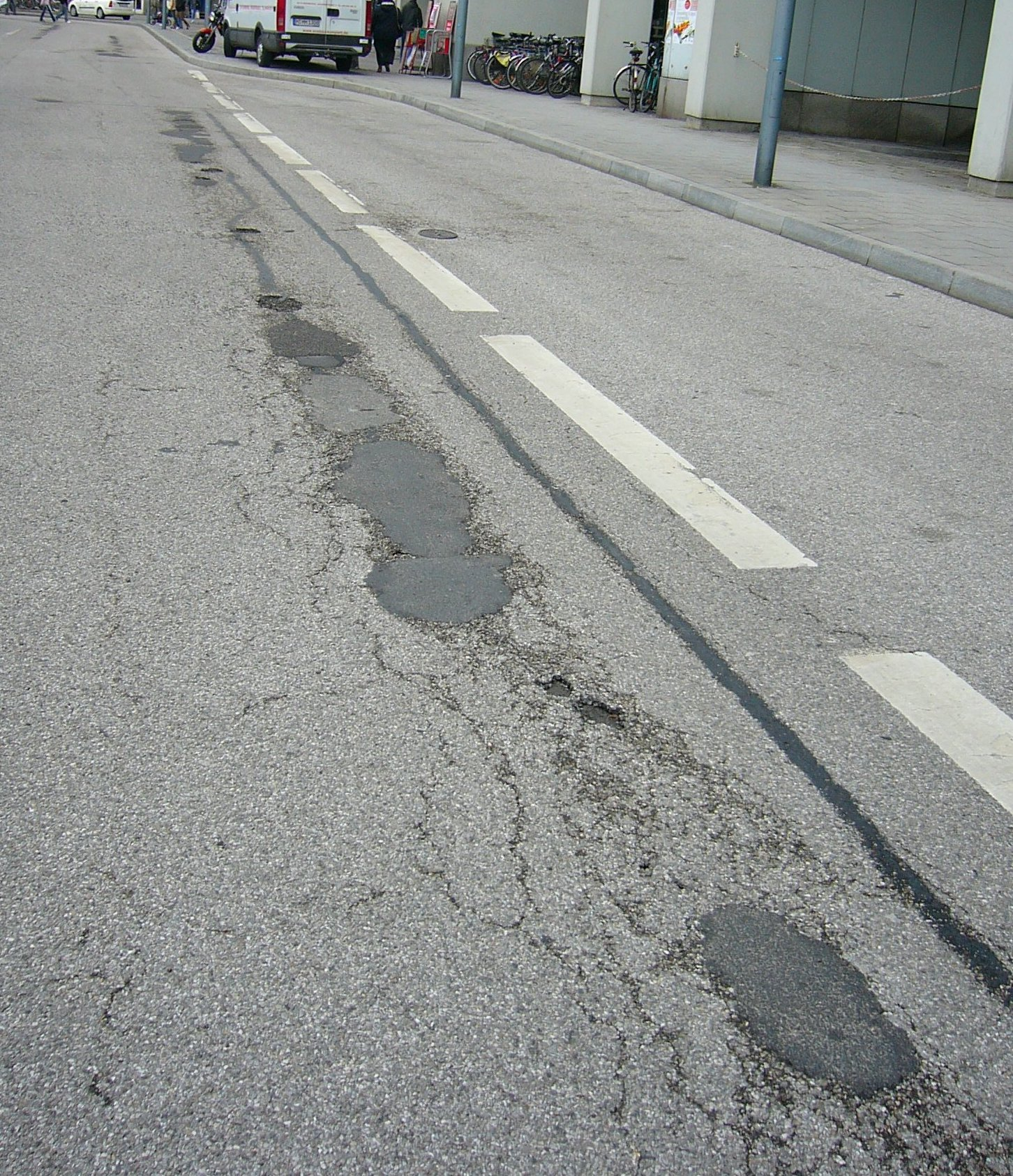 Bad asphalt on a street in Munich, Germany.